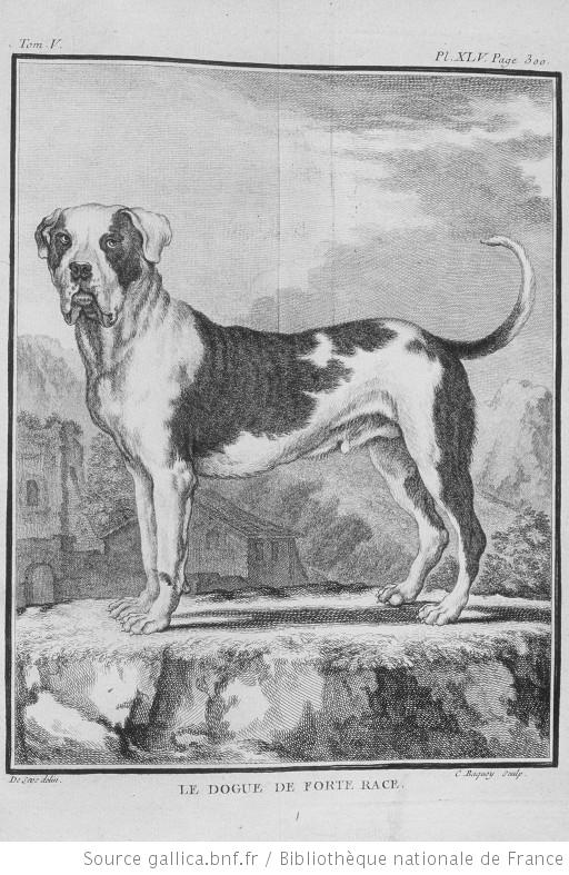 A Molosser